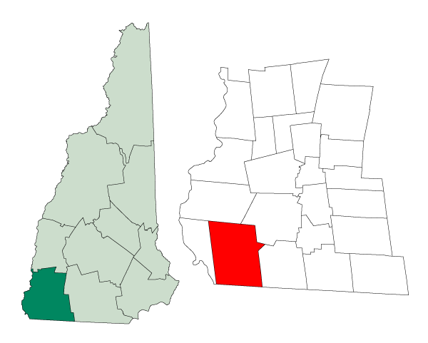 Map of a municipality in Cheshire County, New Hampshire